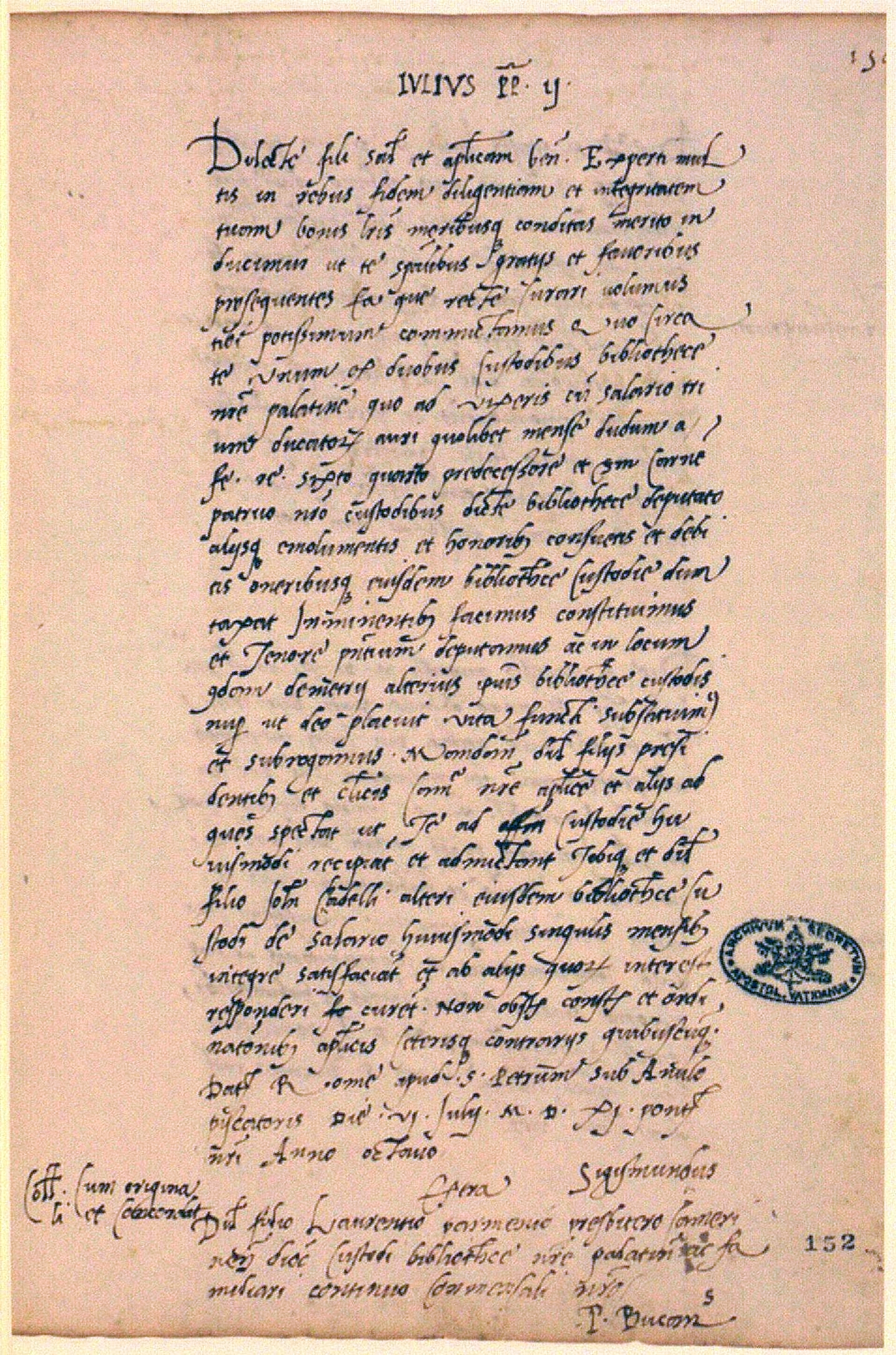 The breve appointing Lorenzo Parmenio Keeper of the Vatican library. Vatican City, Archivio Segreto Vaticano, Cam. Ap., Div. Cam. LVIII, fol. 152r.